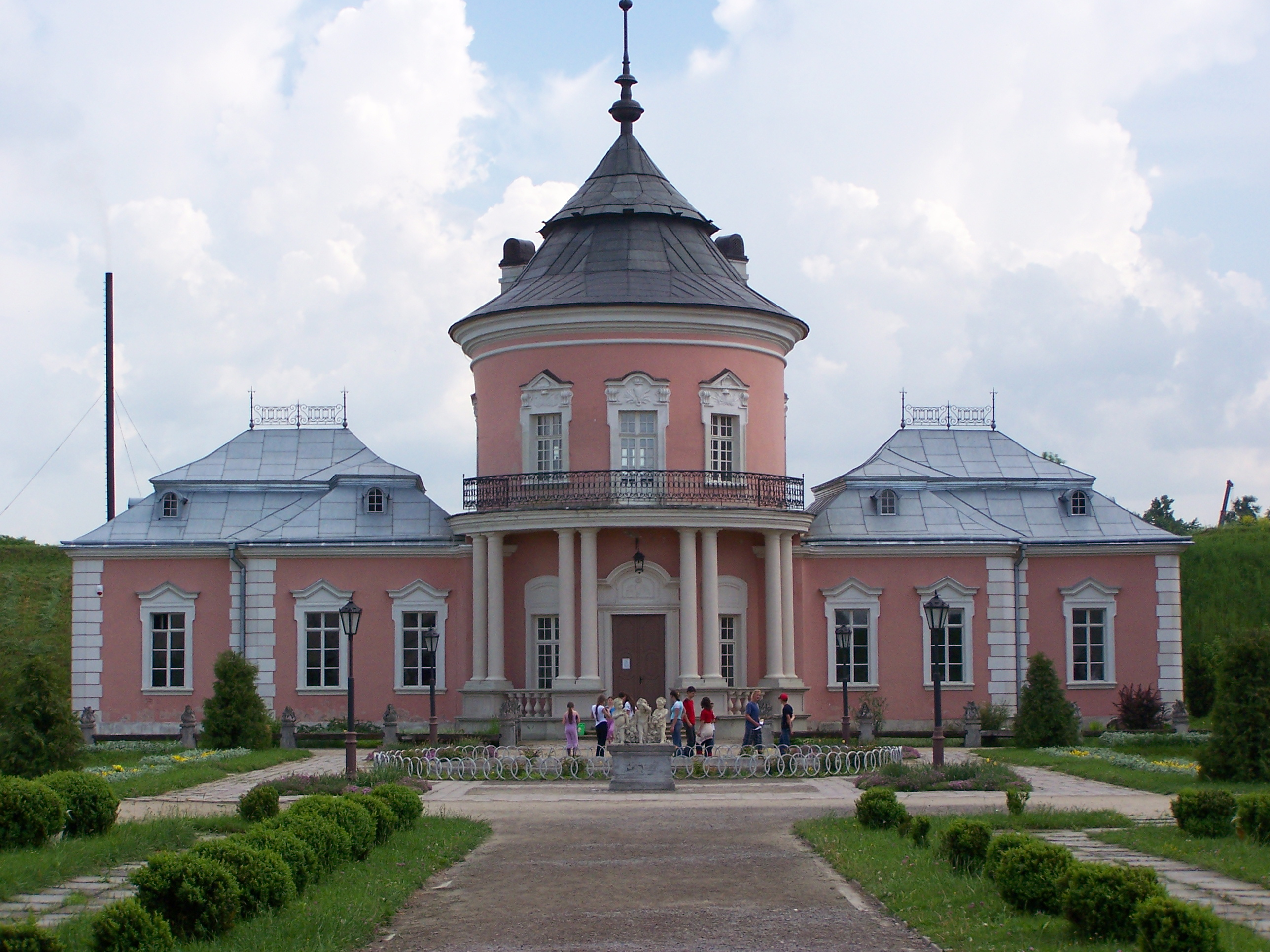 Castle in Złoczów (Ukraine, up to 1939 Poland).